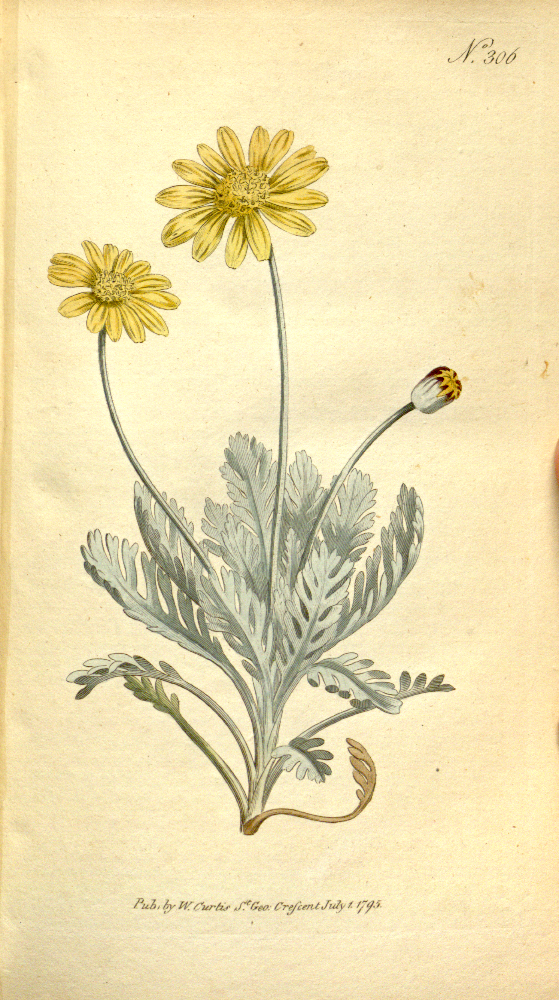 This is a plate from The Botanical Magazine, Volume 9.